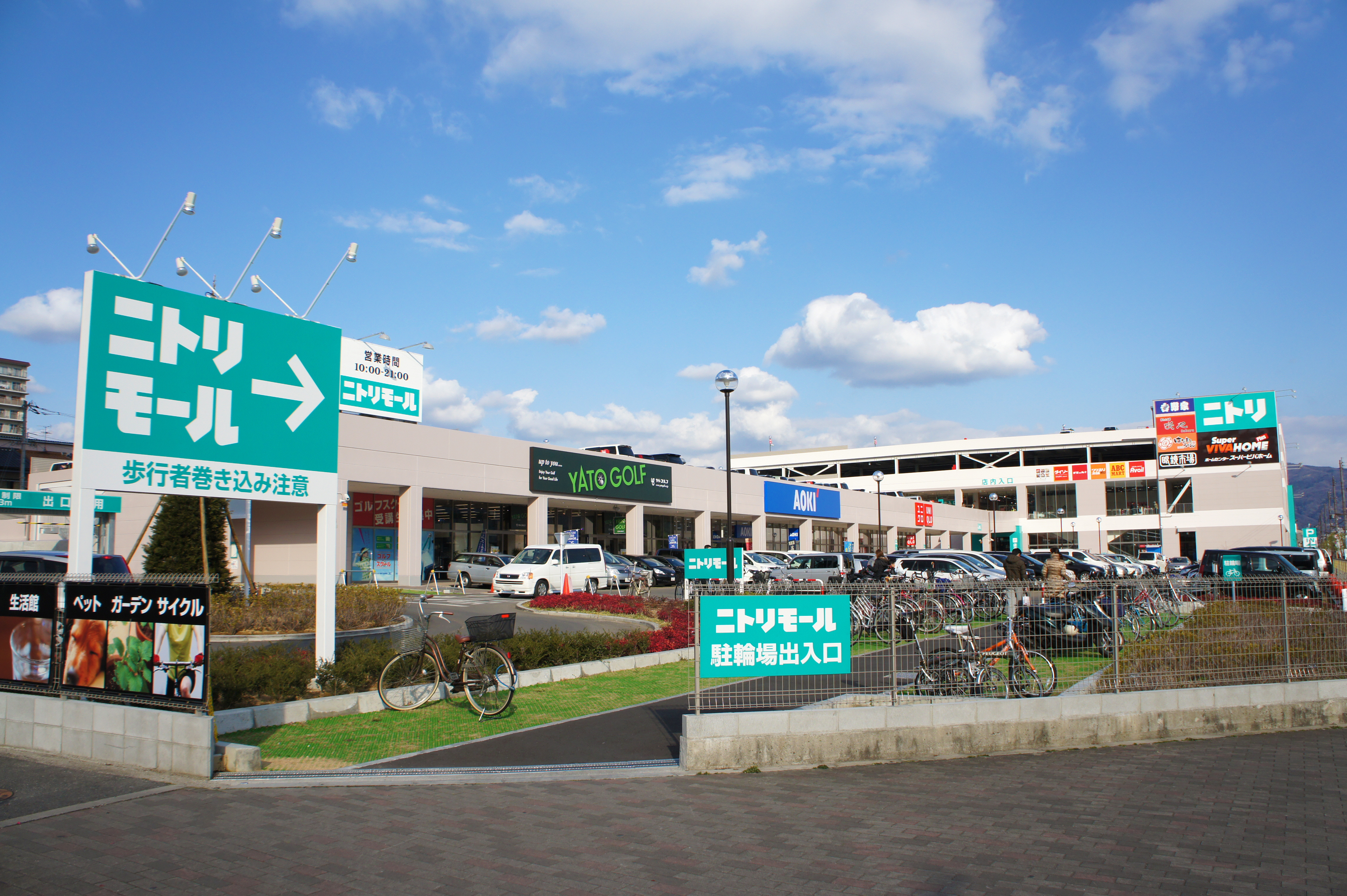 NITORI MALL Higashiosaka, 2-3-25 Nishiiwata Higashiosaka-City Osaka Japan.